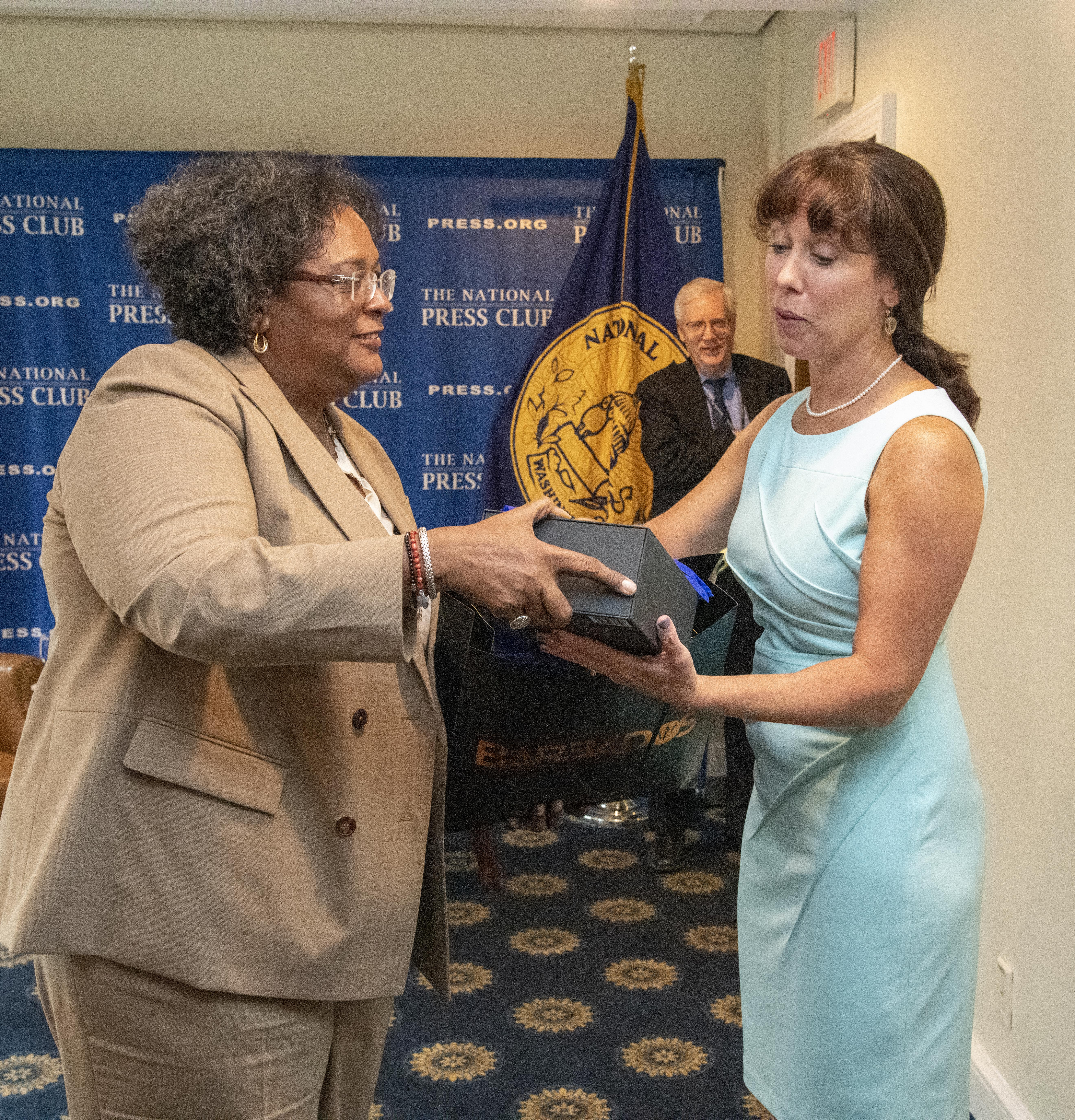 Prime Minister Mottley was interviewed by President Alison Fitzgerald KodjakConversation at The National Press Club